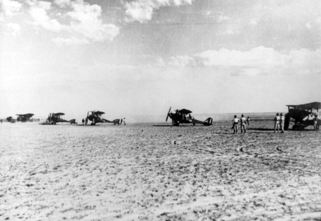 AWM caption : Ottoman Empire: Palestine. Members of the Australian Flying Corps (AFC) watch as three RE8 fighter aircraft of No 1 Squadron prepare to take off on a bombing raid during an offensive in Palestine.